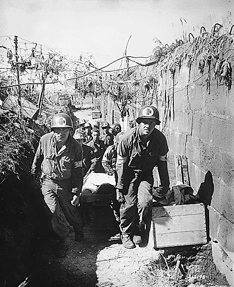 Medics remove a casualty from the battle field to an aid station in an air raid shelter, near Brest, France, formerly used by the Germans.